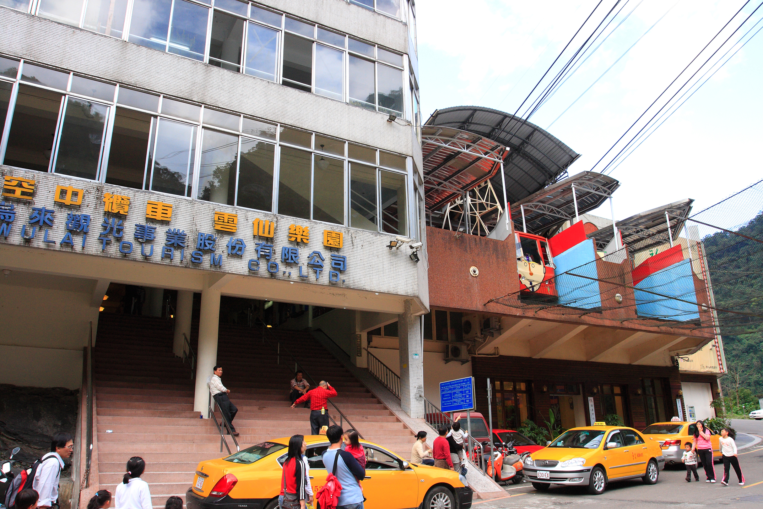 Wulai Aerial tramway Station